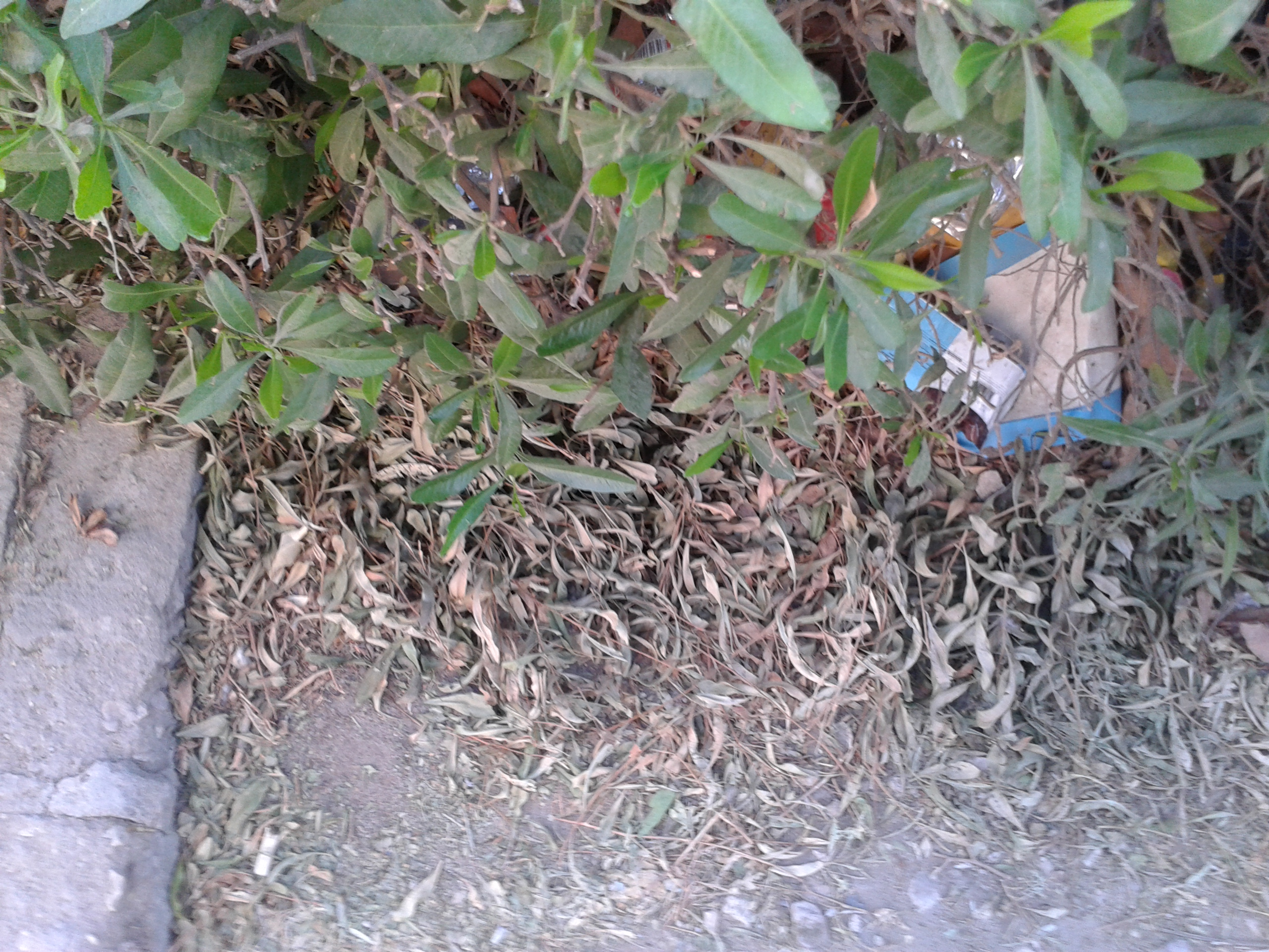 Leaves